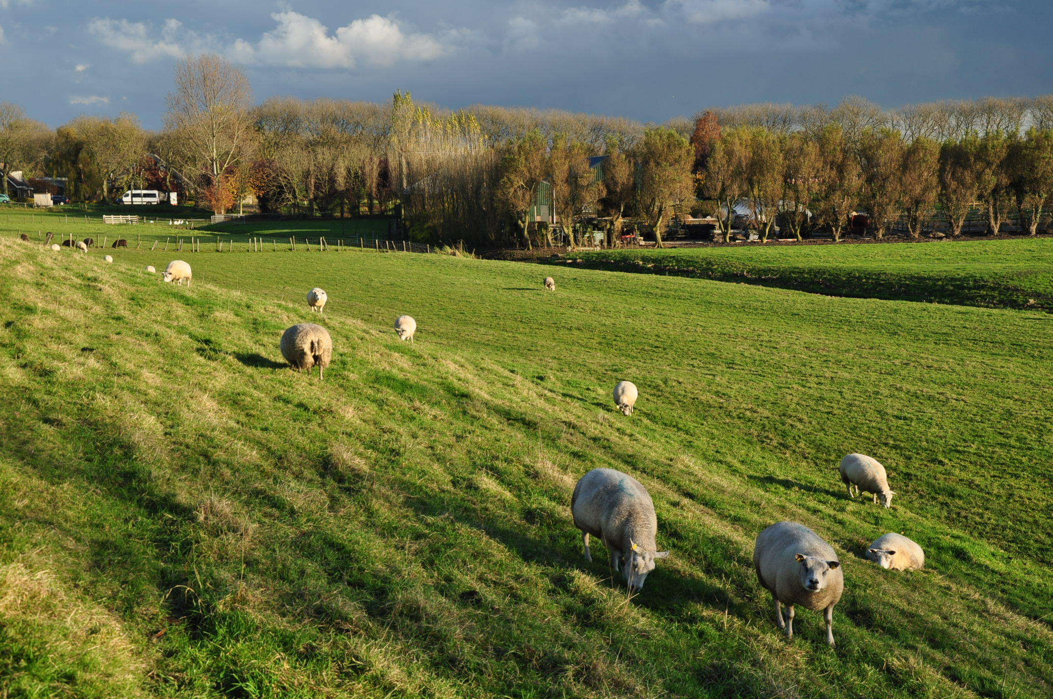 Sheep on a dike at Rijnsaterwoude, near the northern tip of the Vierambachts Polder (municipality of Kaag en Braassem, Province of South Holland, Netherlands).